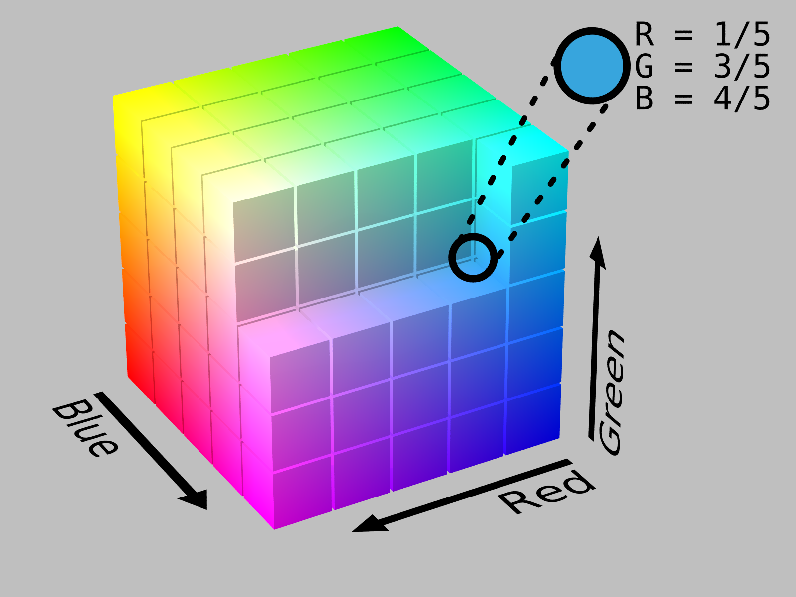 RGB-Cube The RGB color model mapped to a cube. POV-Ray source is available from the POV-Ray Object Collection.